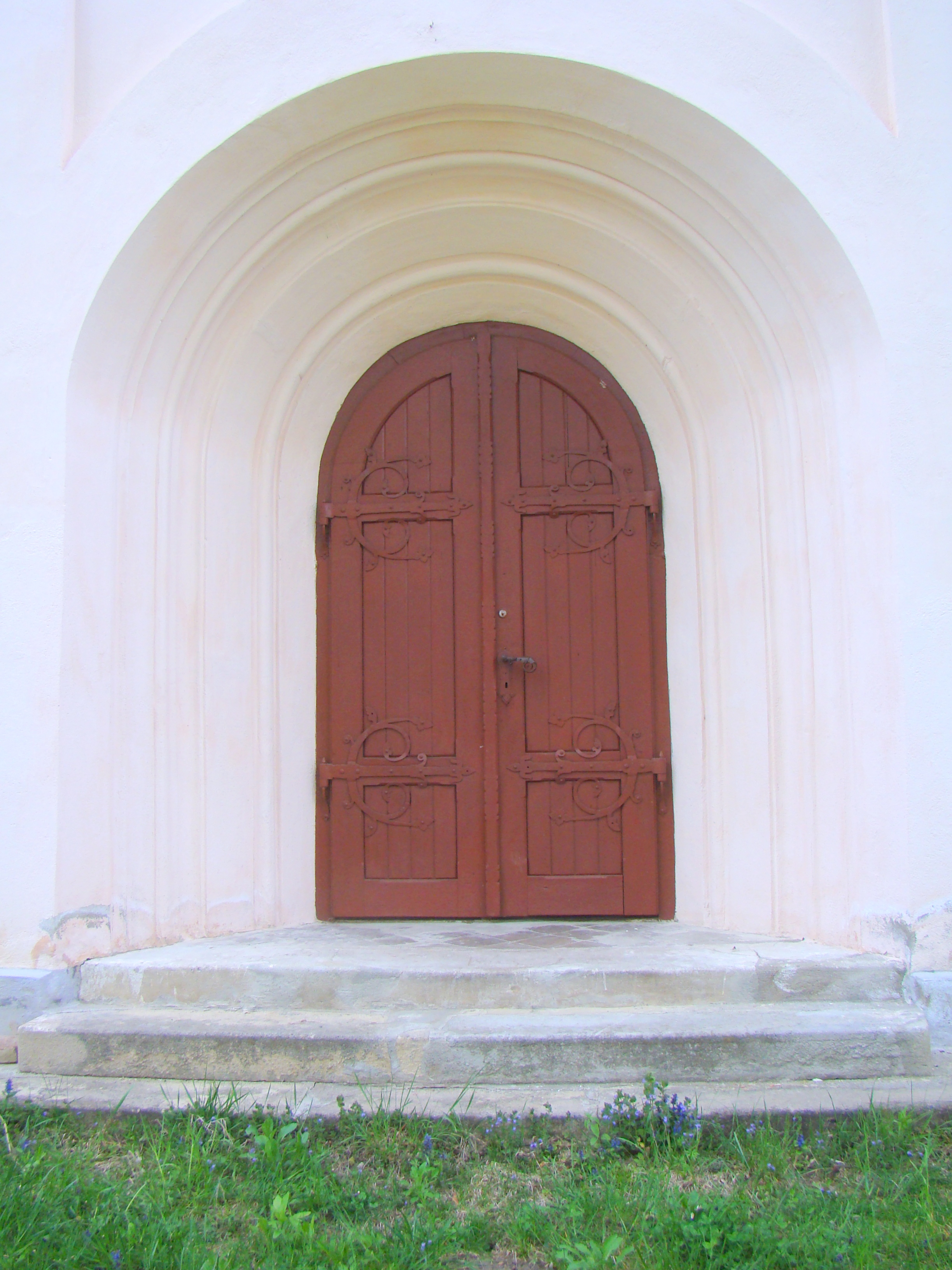 Lutheran church in Criș, Mureș county, Romania